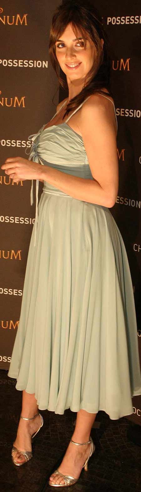 Spanish actress Paz Vega.